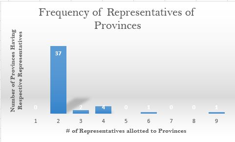 A Histogram showing the frequency of elected officials for Burkina Faso